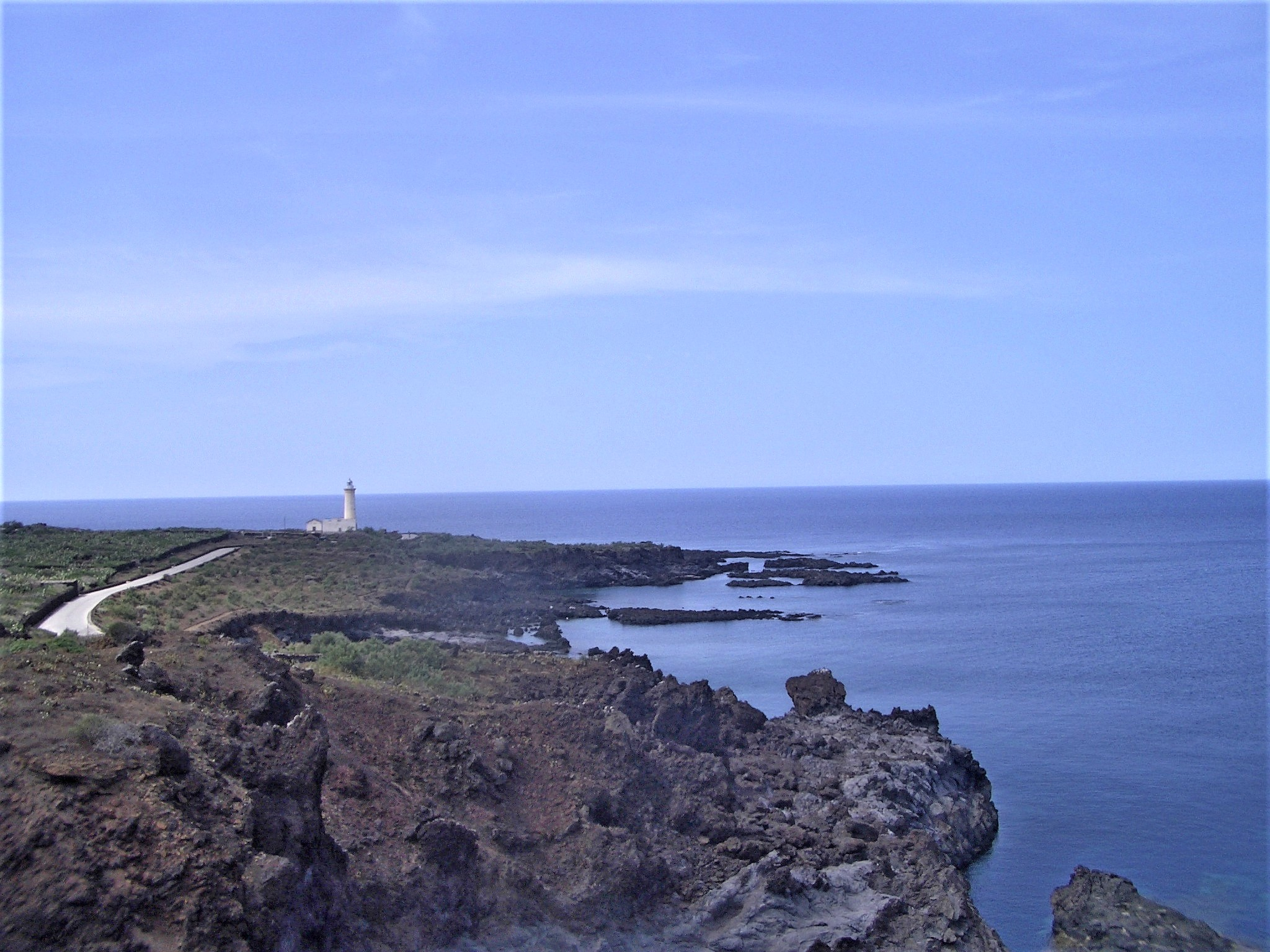 Linosa, landscape with the lighthouse